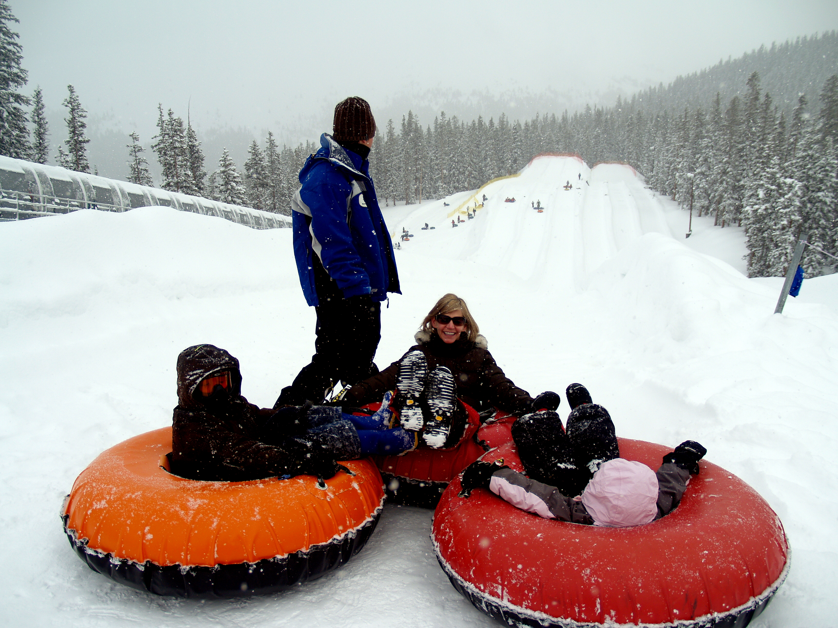 A family snowtubing at Keystone Resort in Colorado. The operator looks off, waiting for the people below to clear the run safely. Photographer's blog post related to this photo.